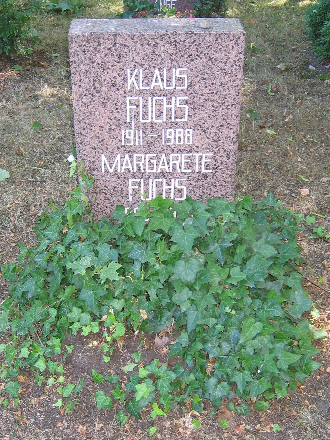 Grave of Klaus Fuchs at Berlin Friedrichsfelde Cemetery